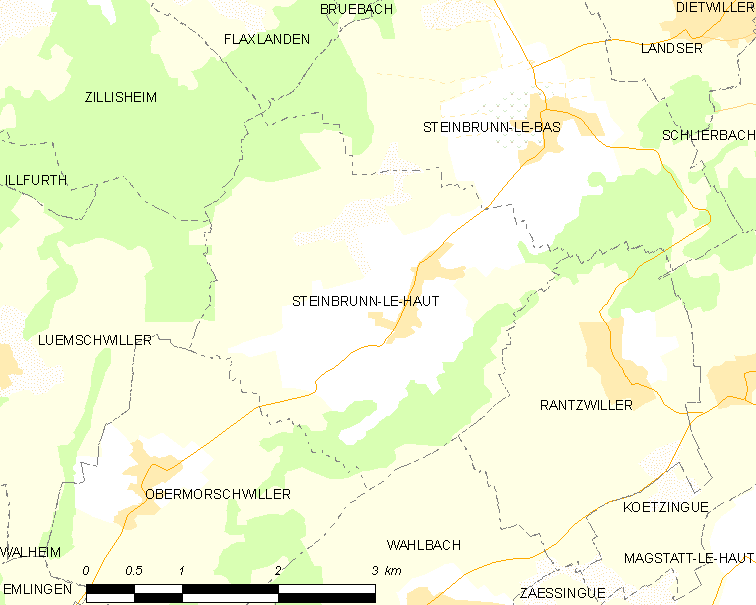 Map of French municipality